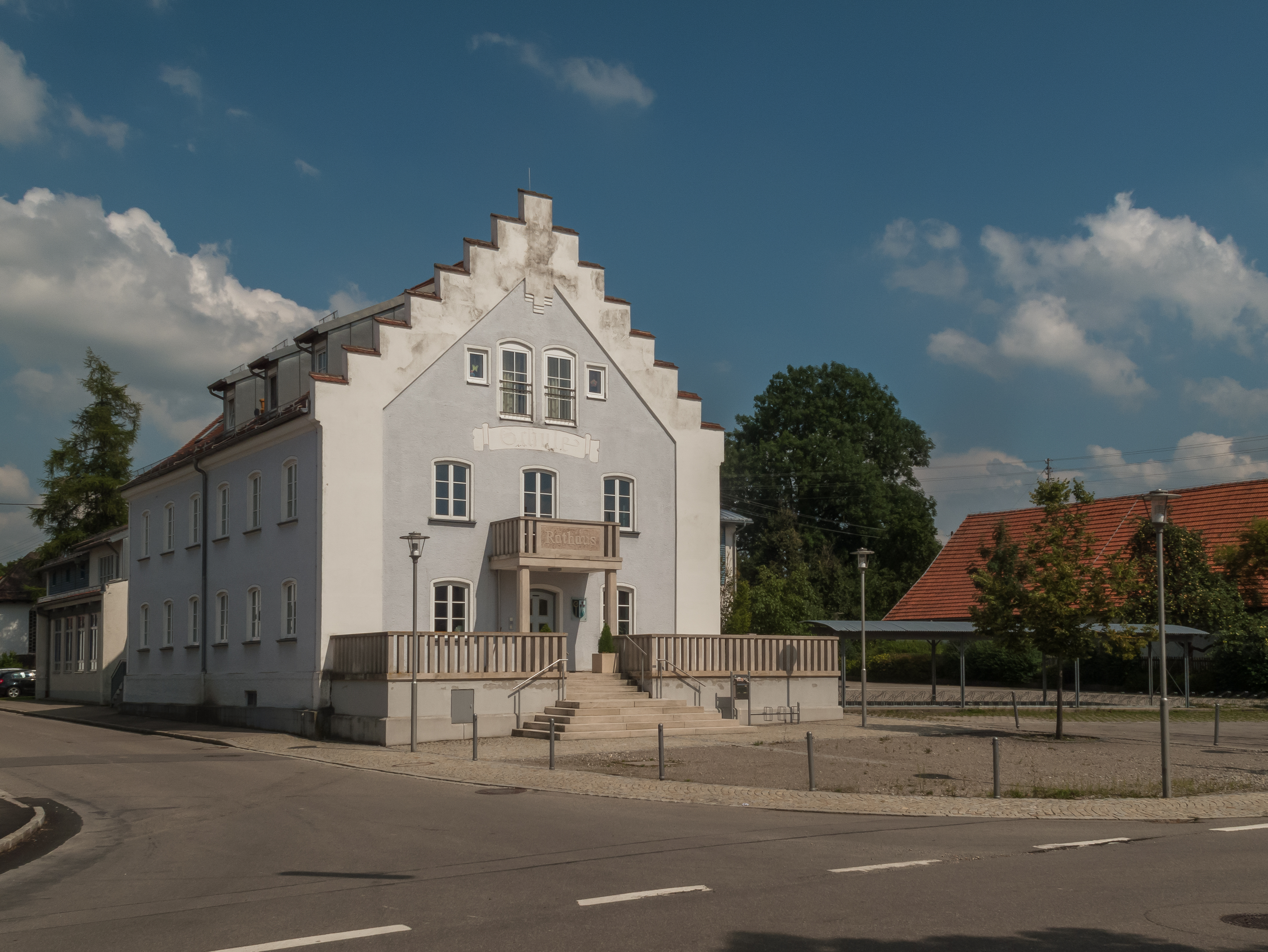 Benningen, townhall